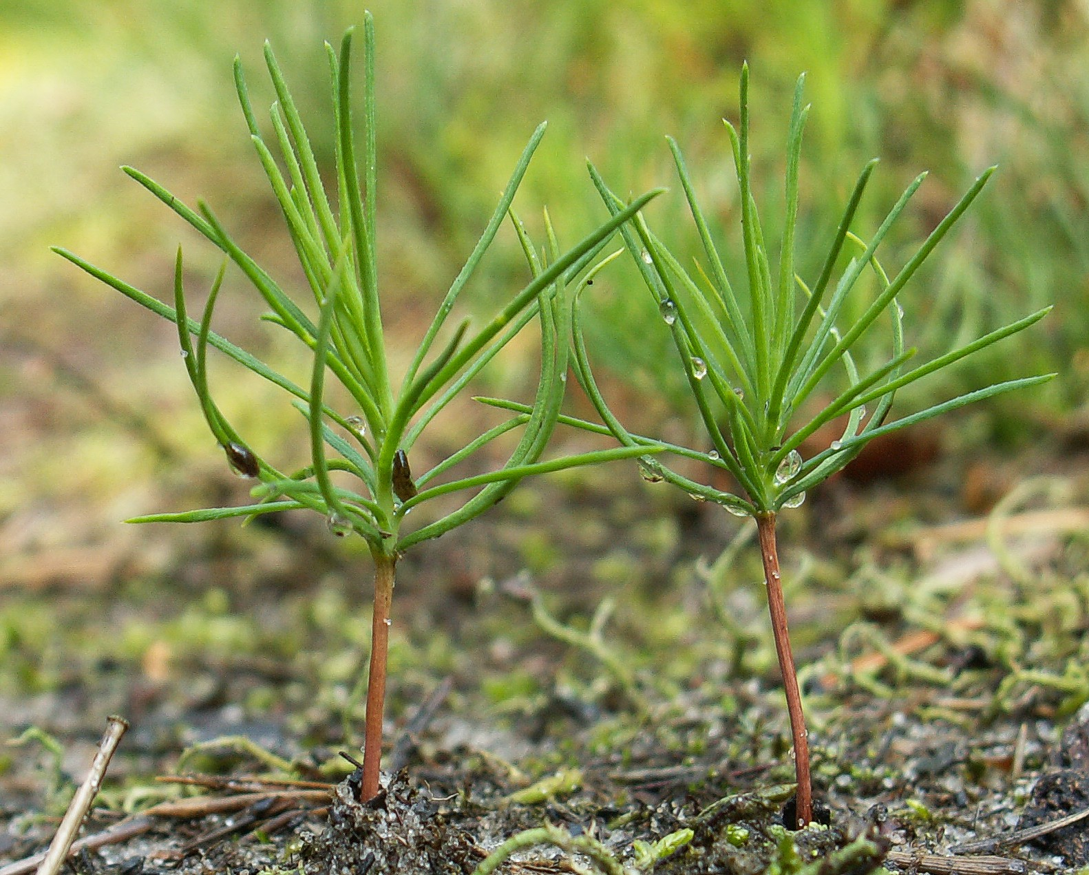 Seedlings of Pinus sylvestris